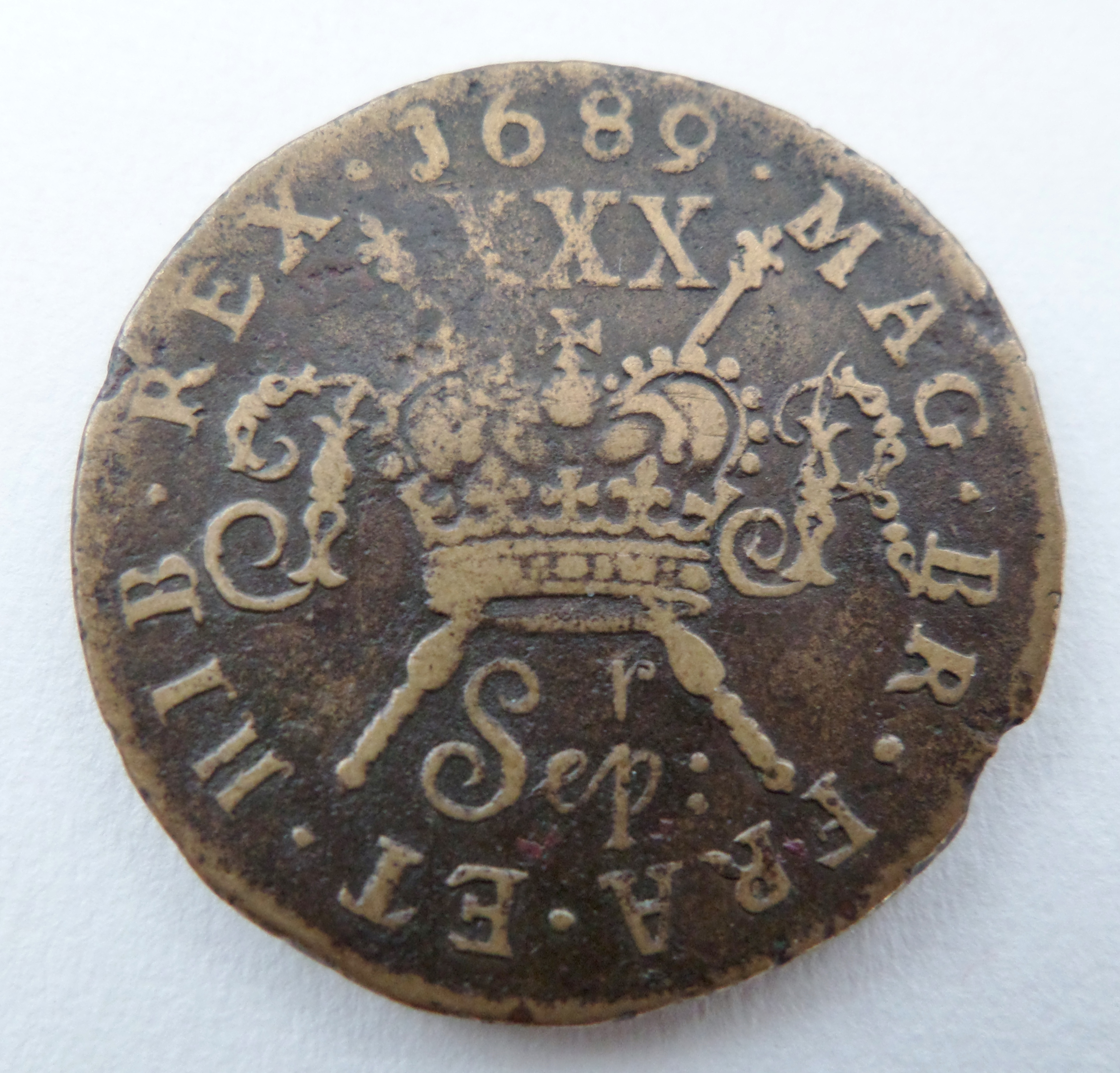 Irish Gun Money of King James II. 1689 30 pence or half-crown made from brass. Month of September. Reverse showing crown, sceptres and titles.